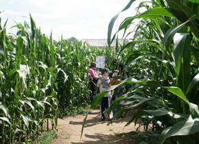 Vegetable labyrinth